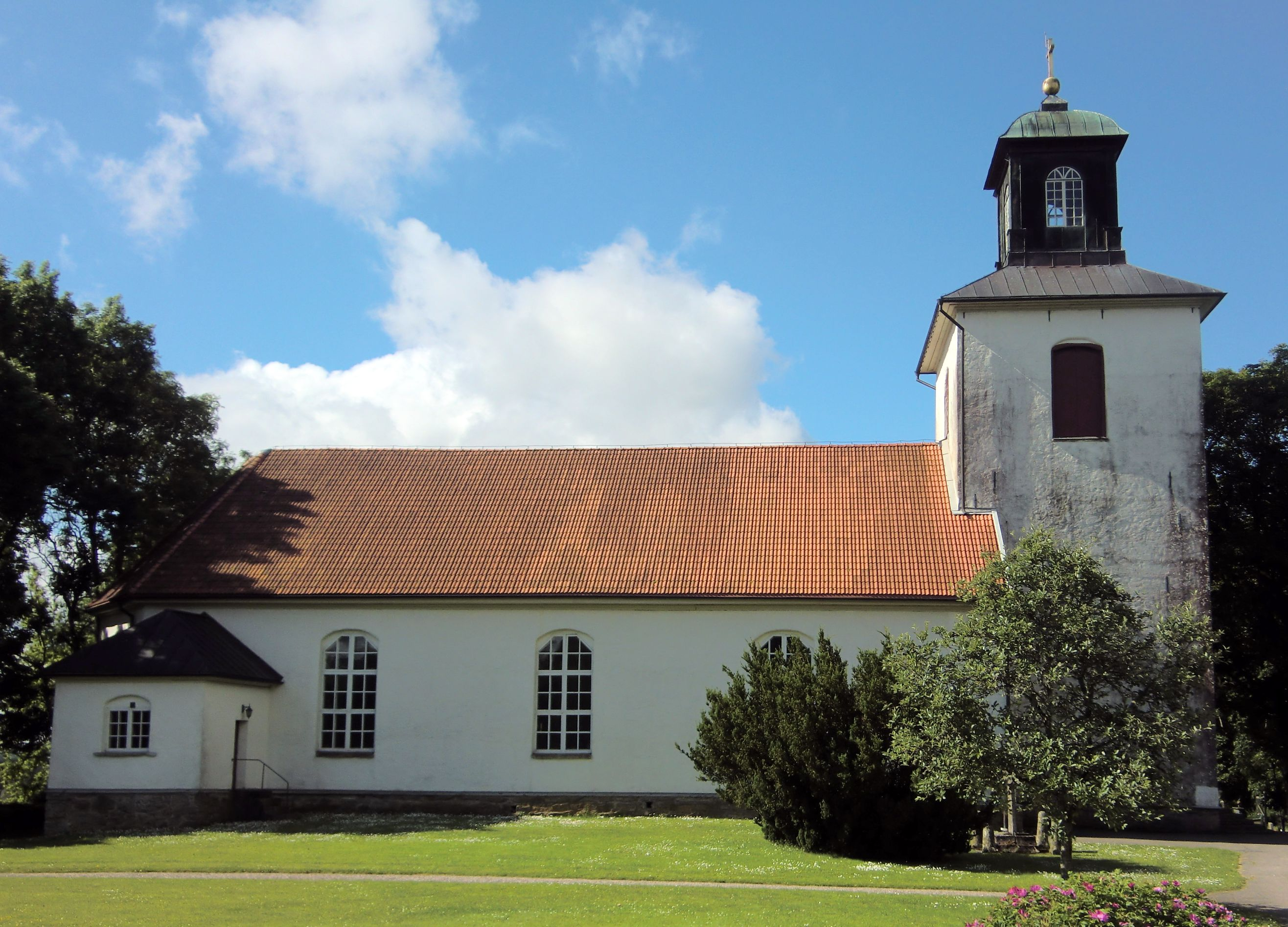 Hällstad parish church, Ulricehamn municipality, Västergötland, Sweden.